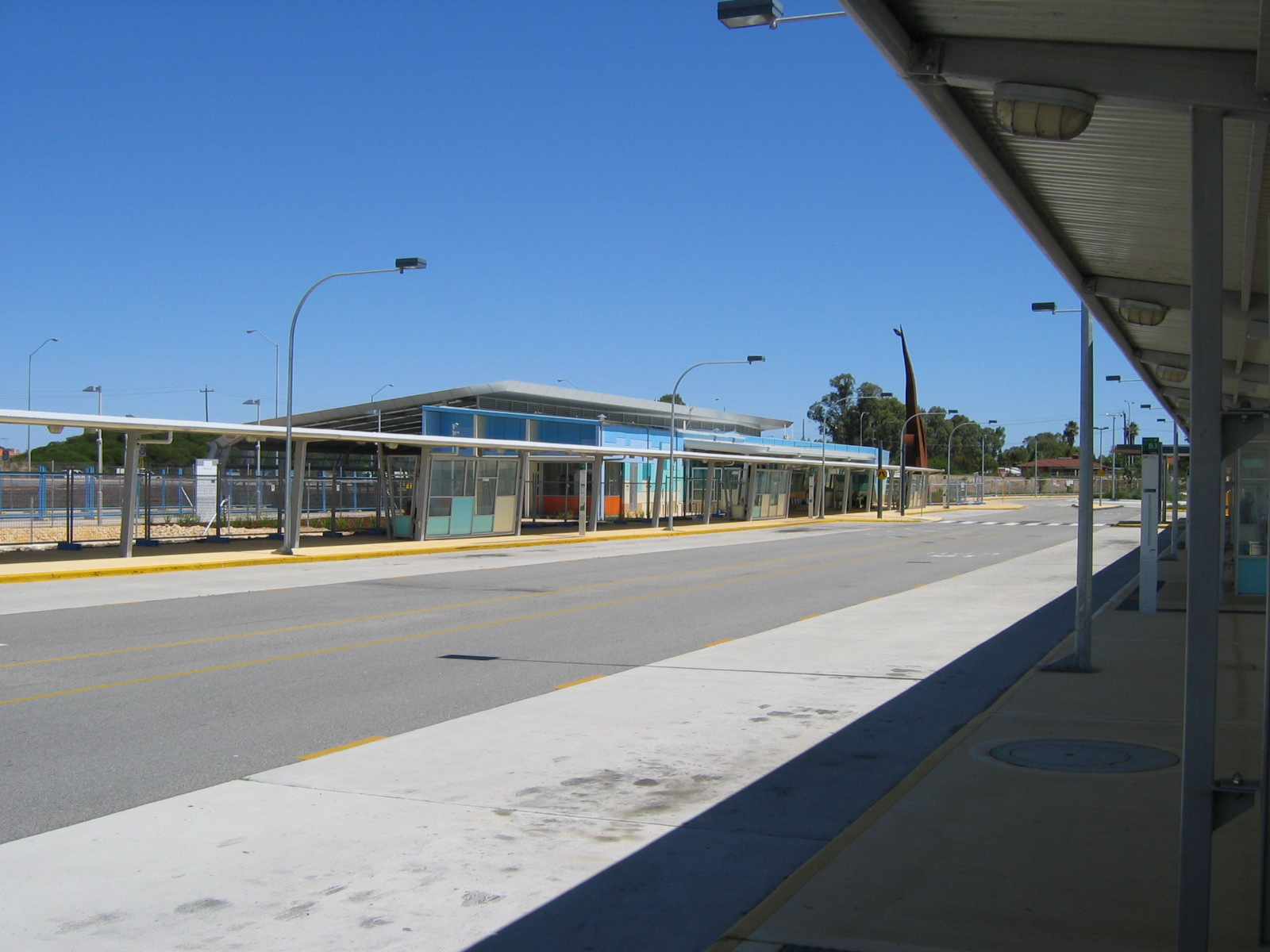 Mandurah bus station, with the partly completed (December 2006) train station in view.